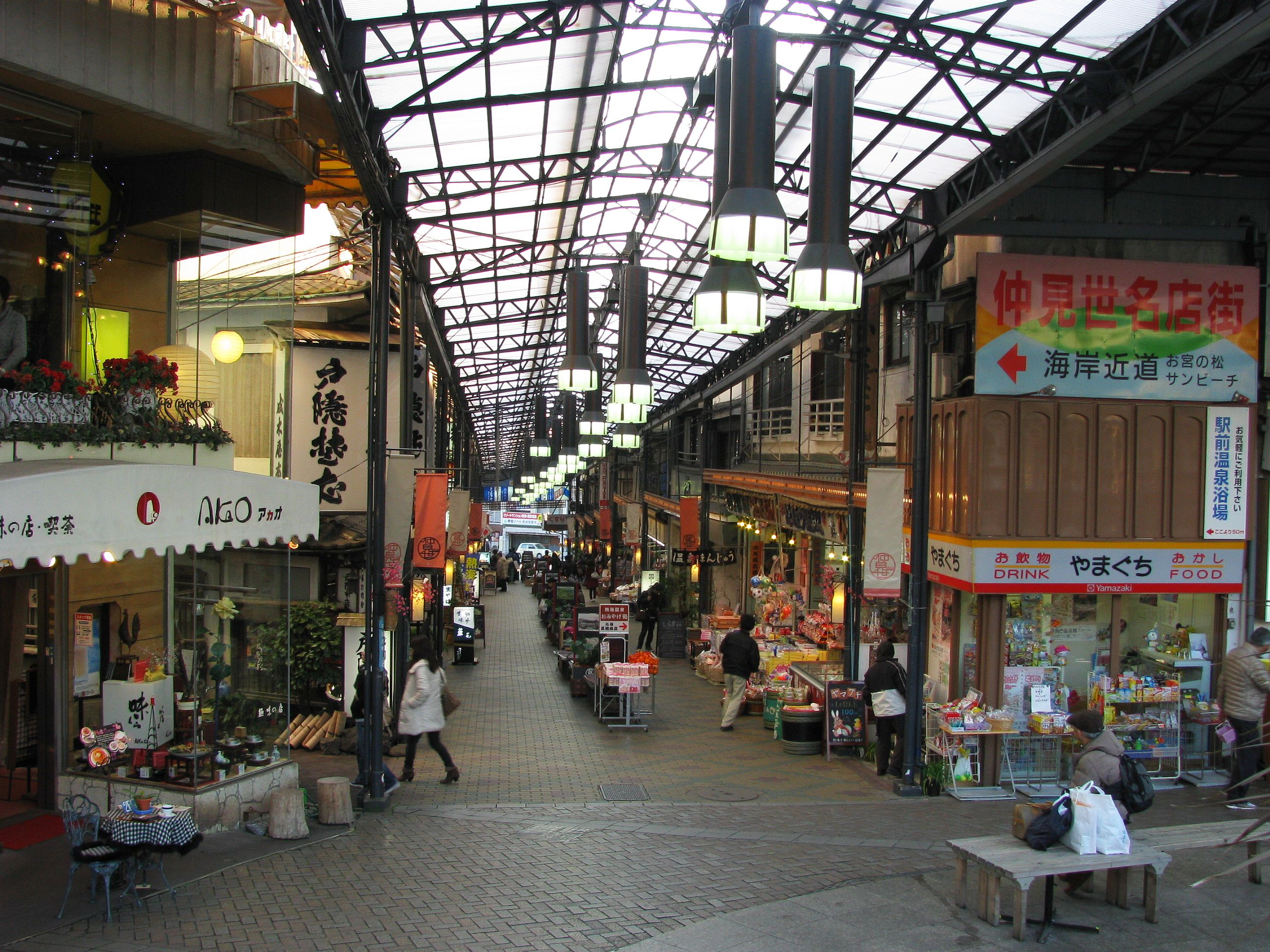 The Atami Nakamise shopping street. This location is front of Atami Station, in Atami, Shizuoka, Japan.